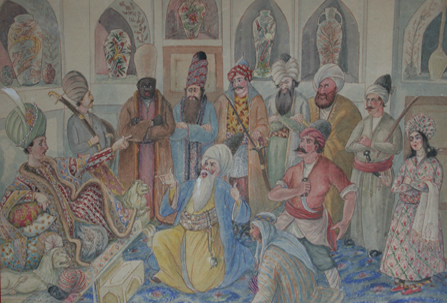 Deceived Stars by Azim Azimzade.